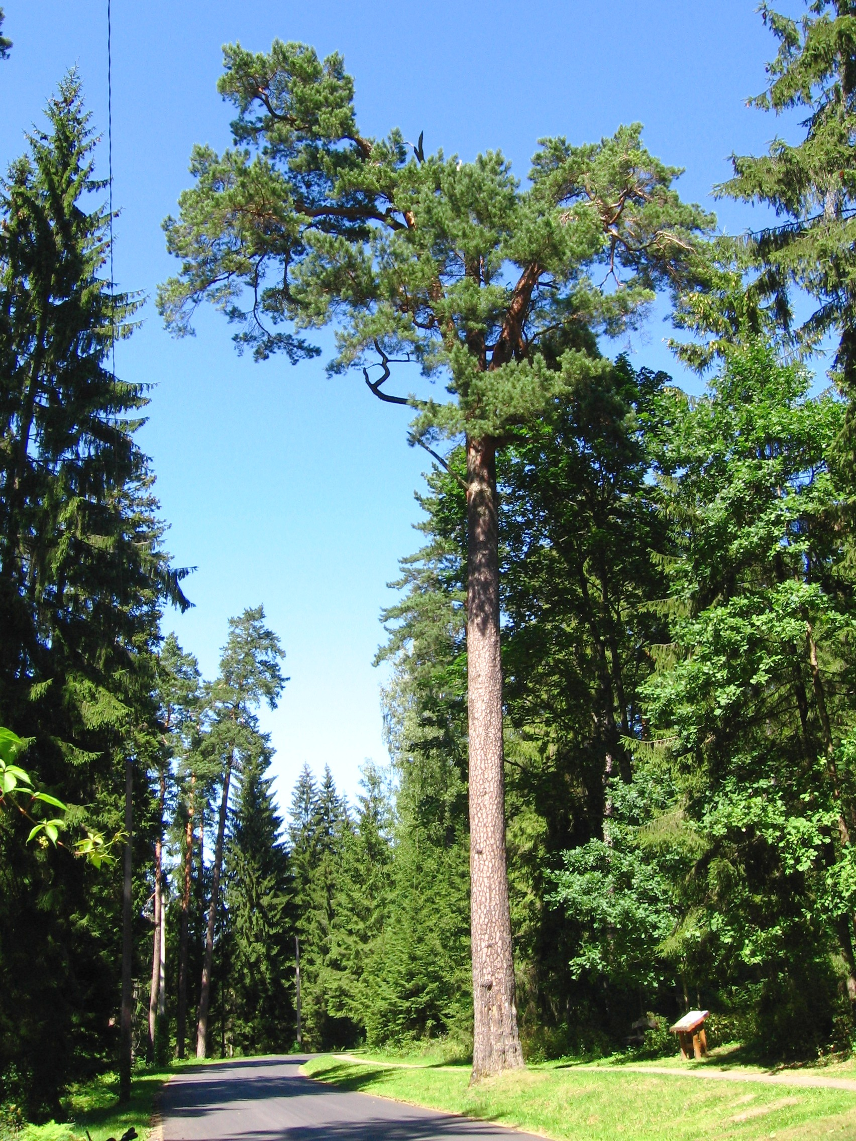 Protected nature object - Thick Tytuvenai forest pine, Kelmes district, Lithuania